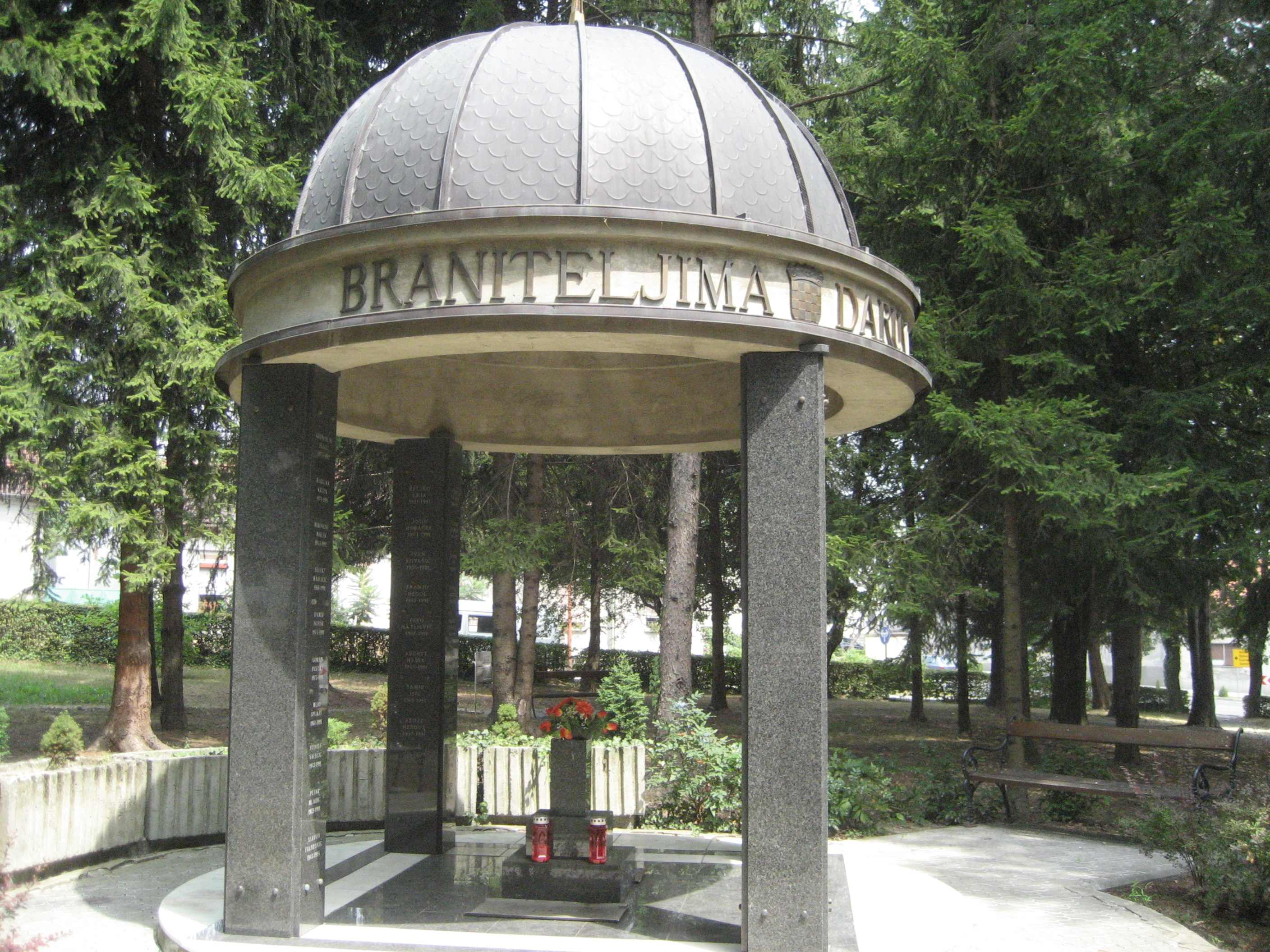 Memorial for the defenders of Daruvar 1991-1995